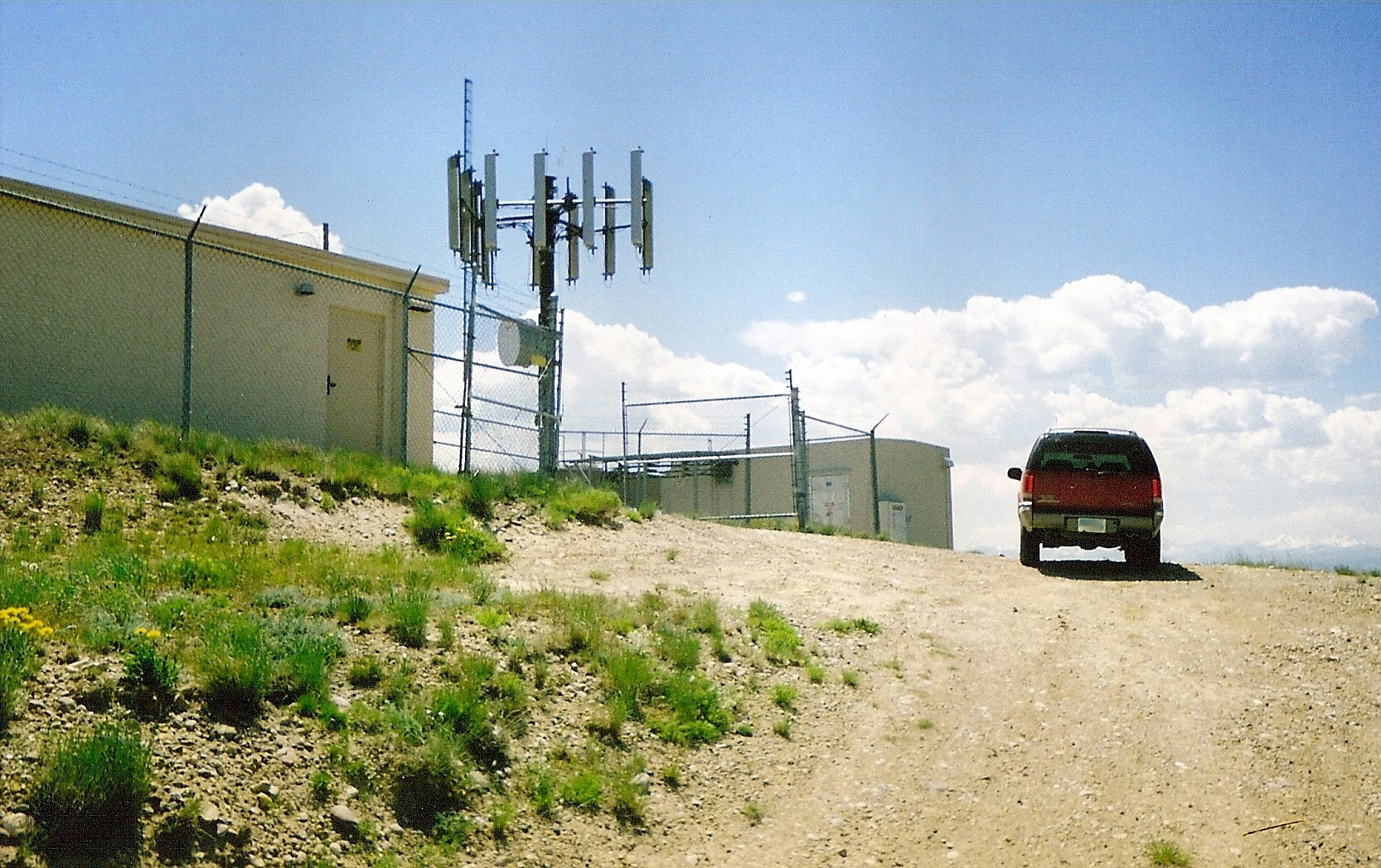 A typical cell site in Wyoming, USA.